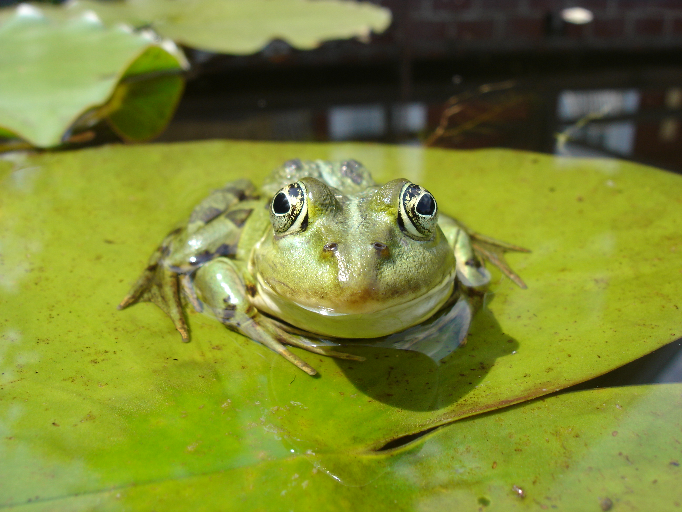 A specimen of Rana esculenta sitting on a nympheae leaf, living in a garden pond. Close-up view of its snout.